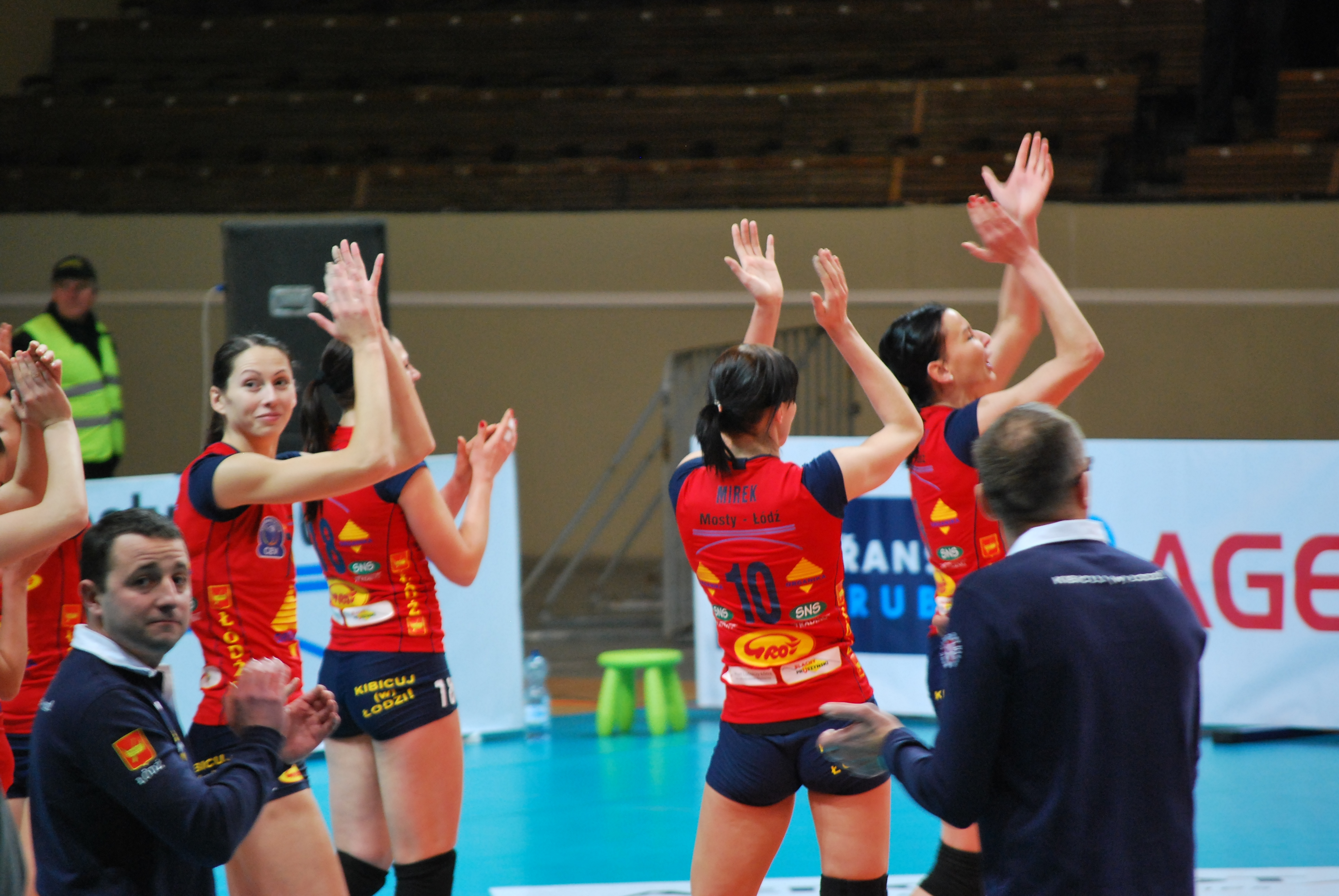 Budowlani Łódź - Modranska Prostejov 3:2, Champions League 14.12.2010